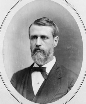 A. U. Wyman